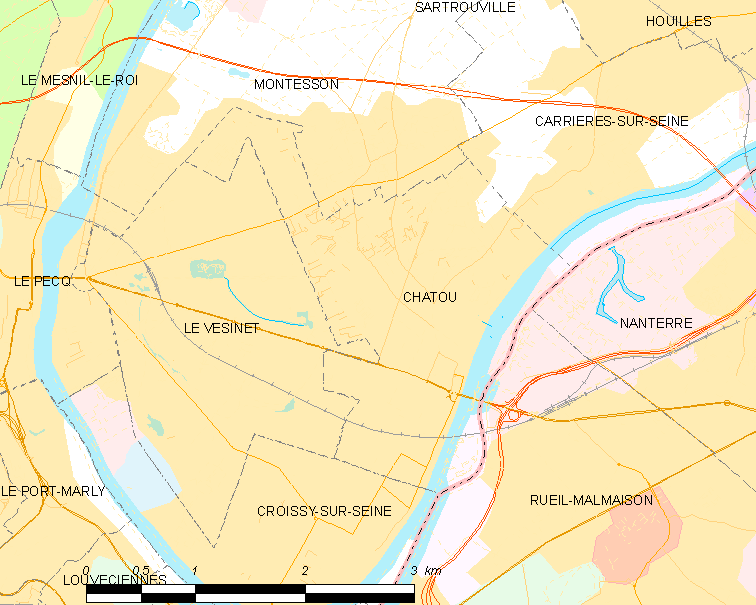 Map of French municipality Chatou